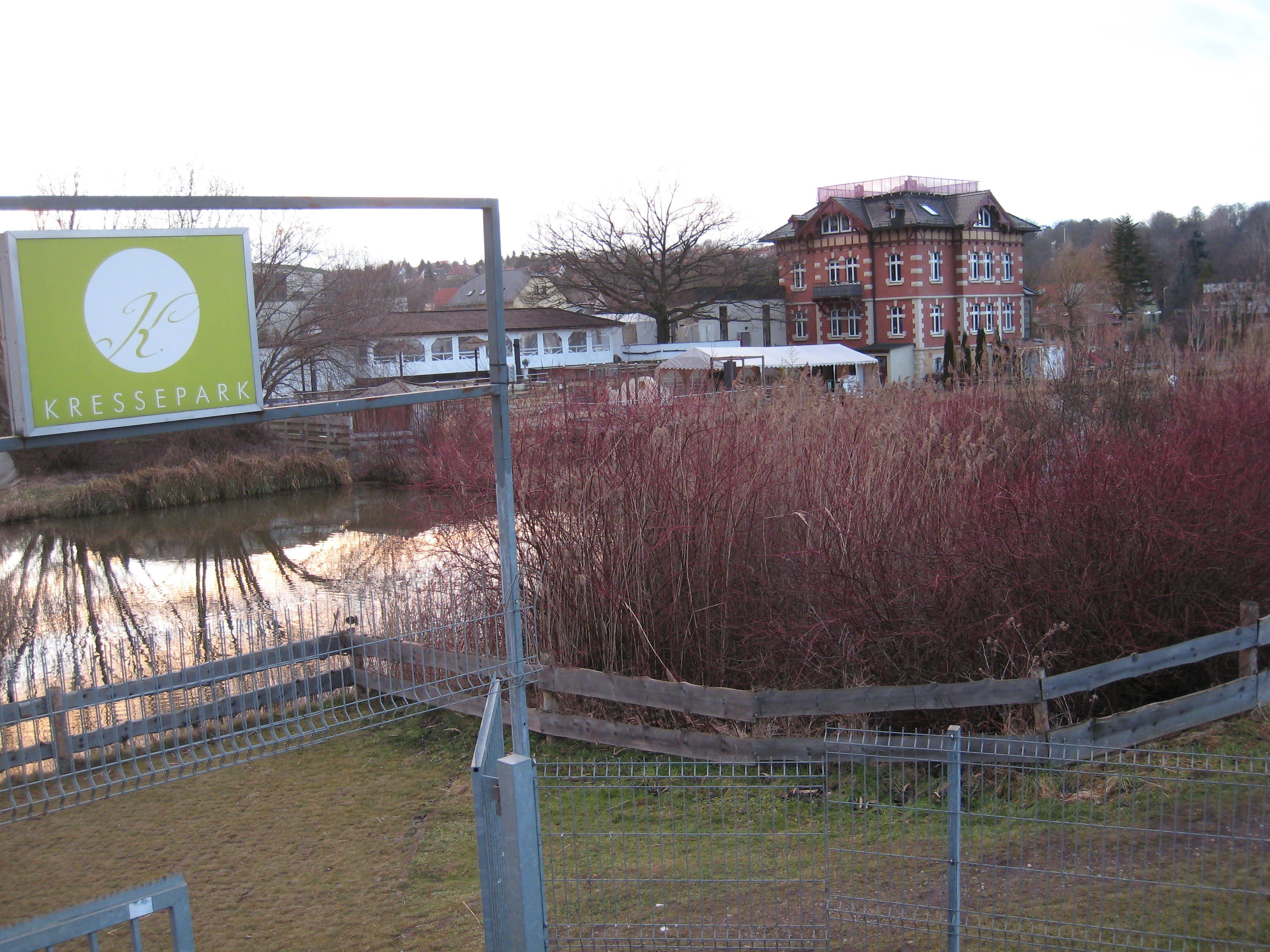 Kressepark Erfurt